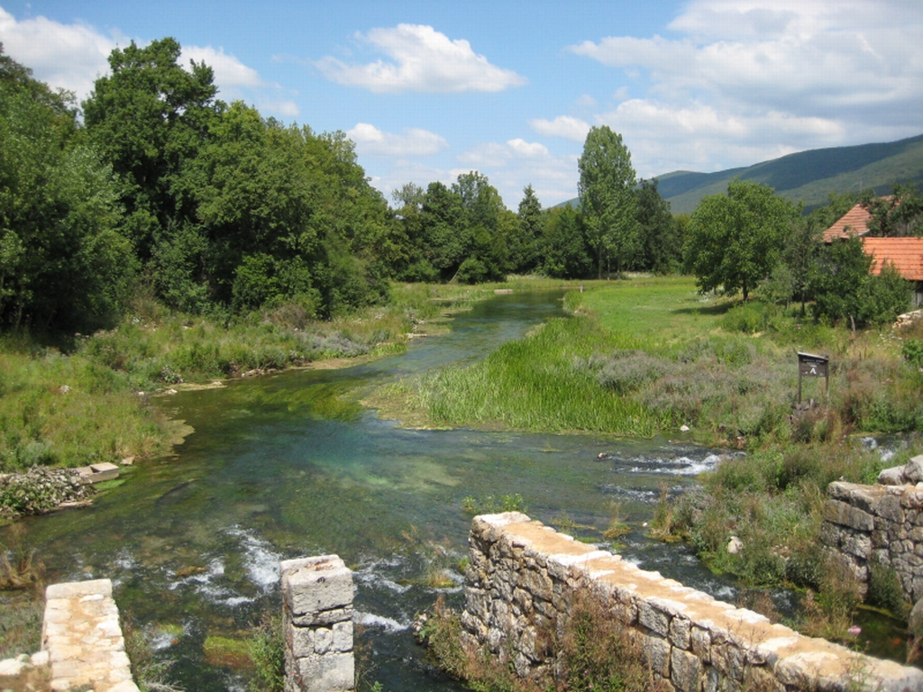 Huge karst spring, Majerovo Vrilo, in the polje of Gacka, Croatia. See also Gacka spring